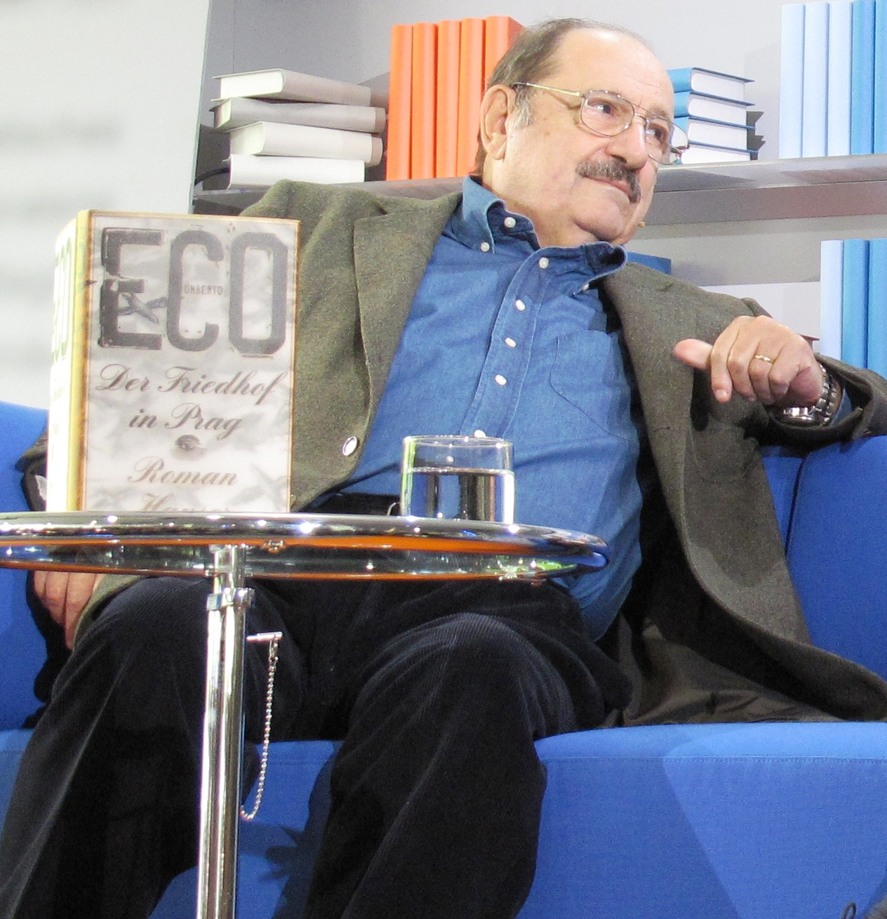 Umberto Eco - Frankfurt Book Fair 2011